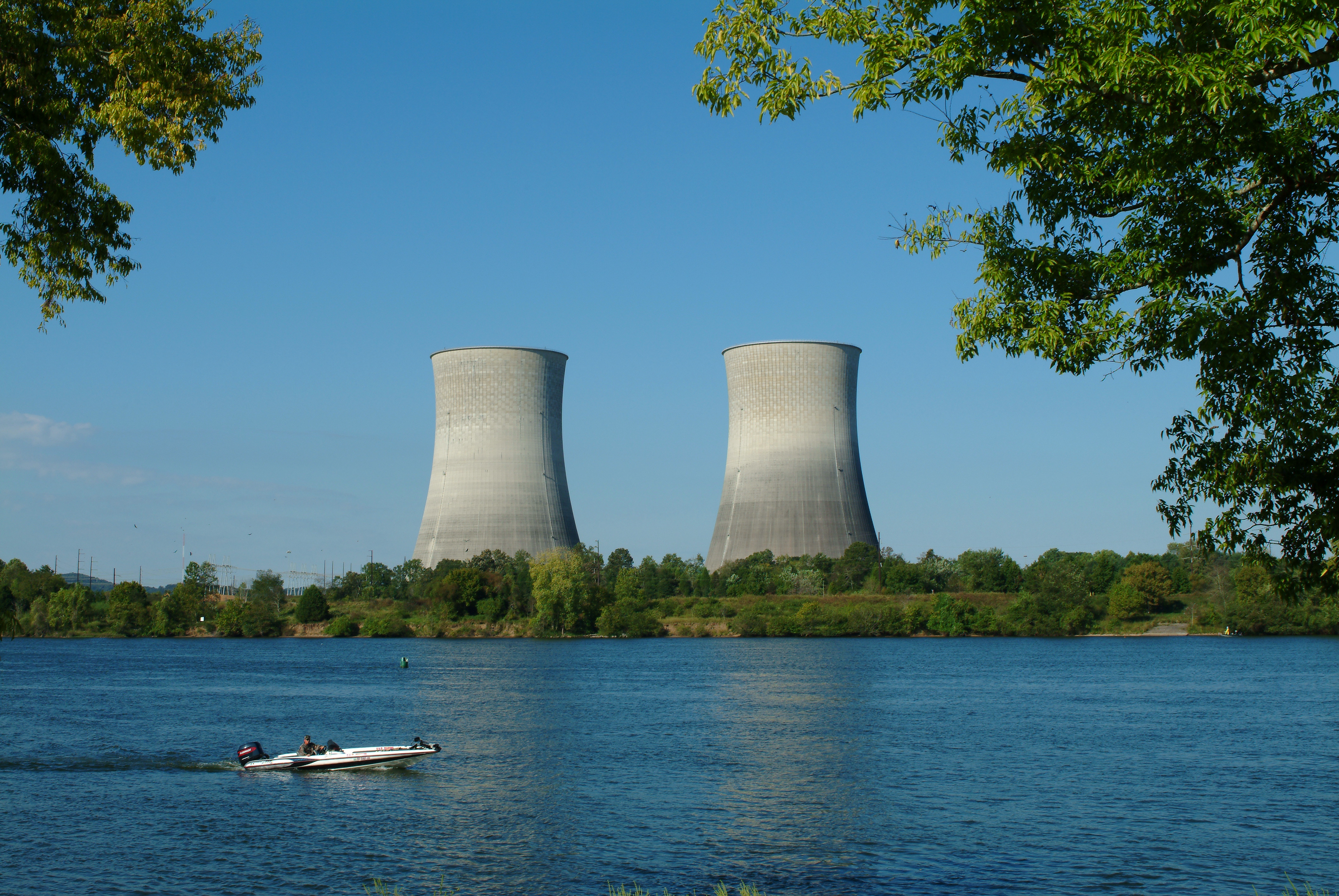 Watts Bar Nuclear Generating Station.